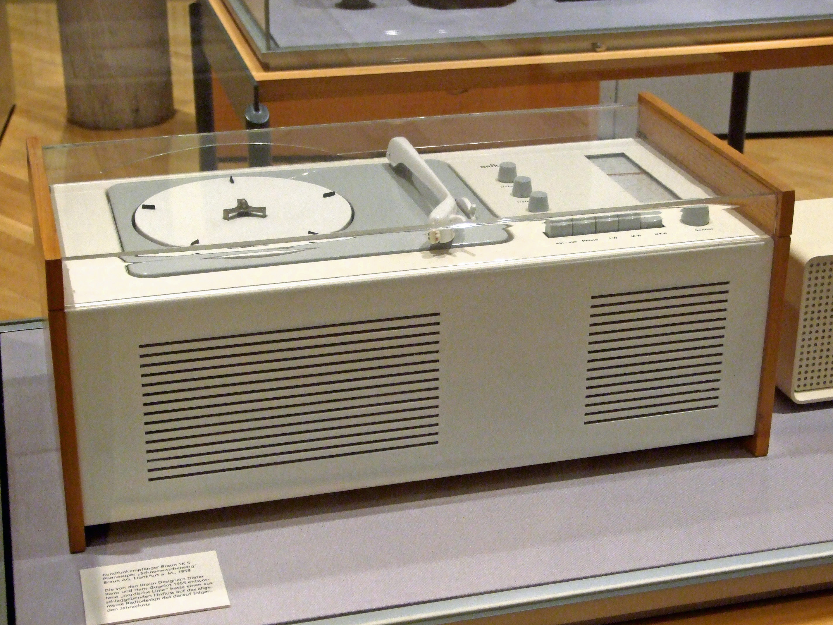 Phonosuper, Make: Braun, Type: SK5. So-called Snow white casket. As seen at the Museum of Communication in Frankfurt/Main, Germany